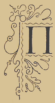 Drop cap "P" in introduction to the book "Life and St. Nikolay Chudotvorts's miracles".